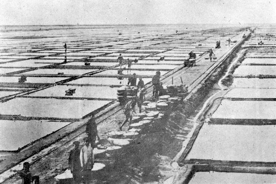 專賣局鹽田